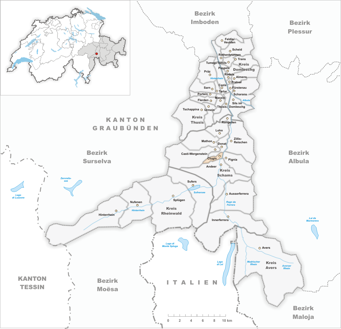 Municipality Clugin